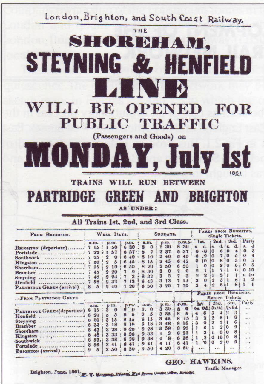 Notice announcing the opening of the Steyning Line, West Sussex